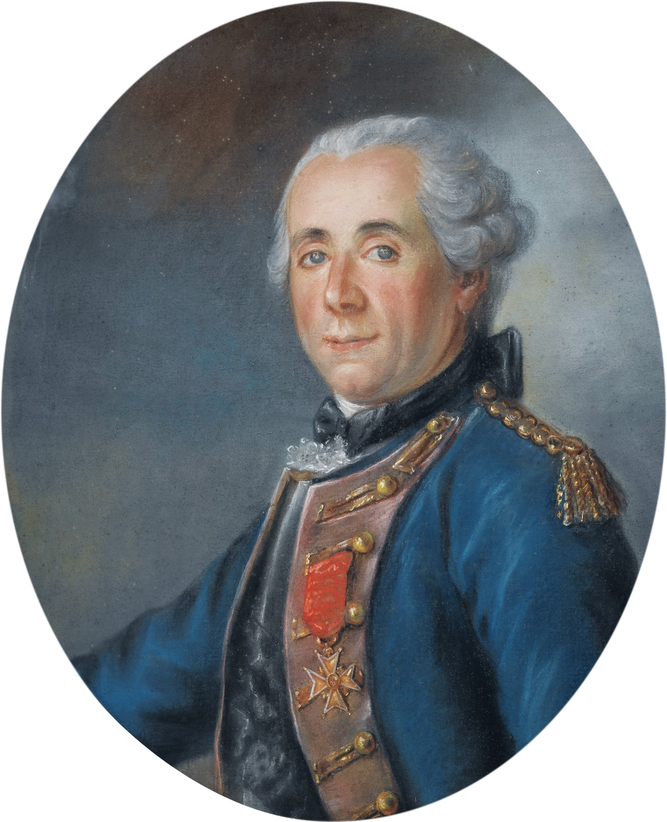 Jean-Baptiste Berthier (1721-1804), père de Louis-Alexandre Berthier